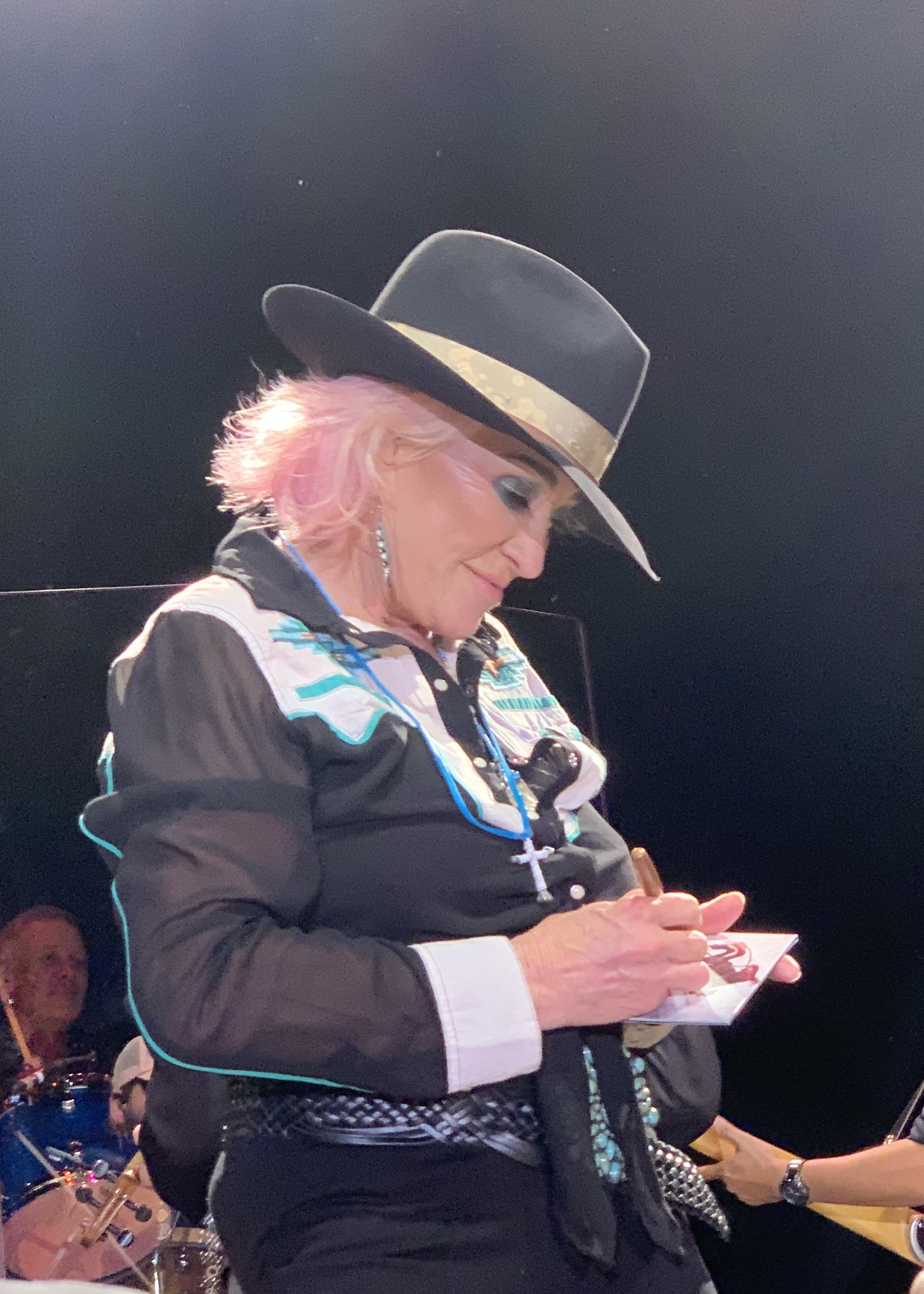 Tanya Tucker signing autographs after a show in Biloxi, Mississippi, on September 28, 2019.